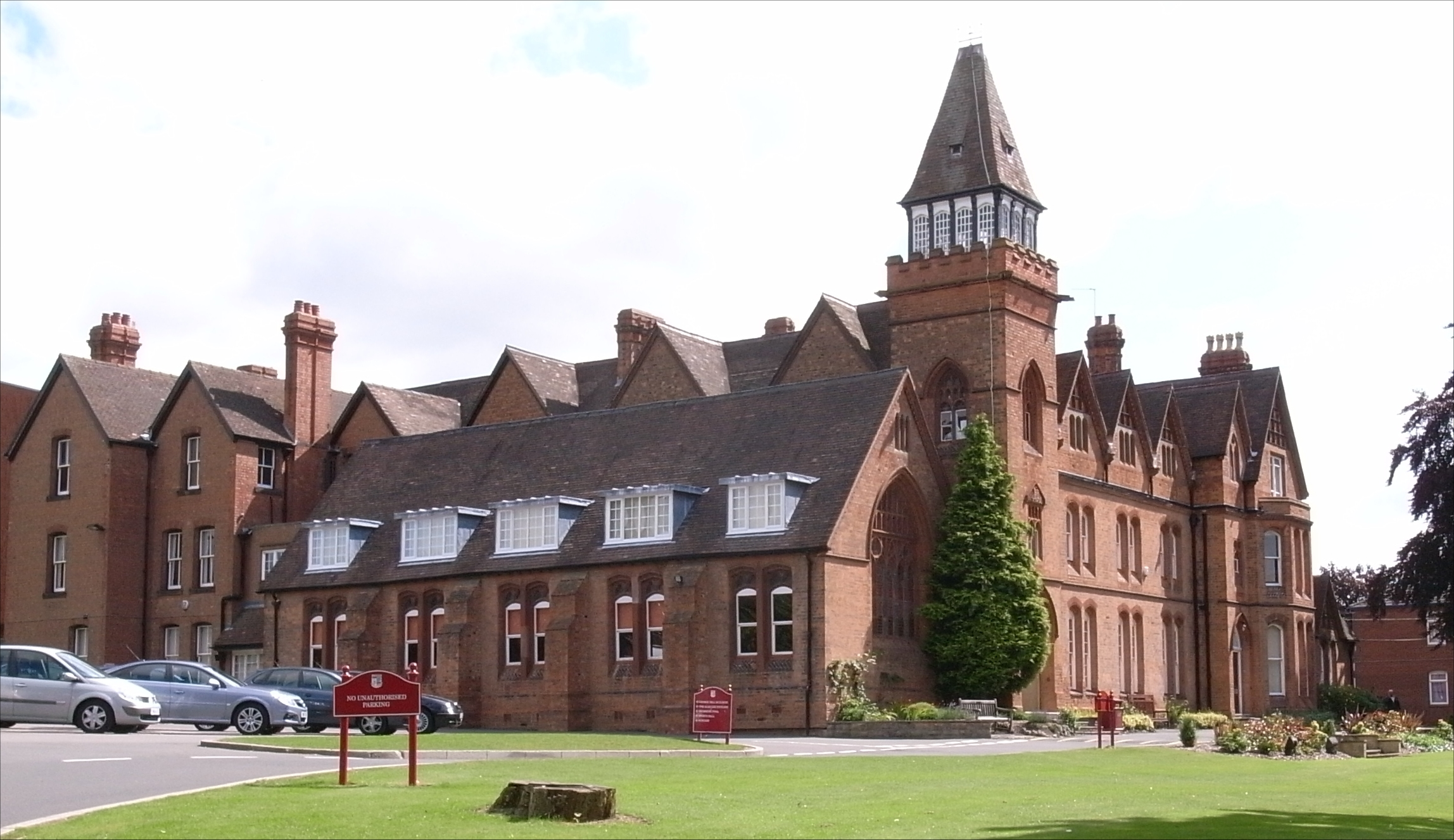 The old school building of Solihull School, West Midlands, England. A Grade II listed building by architect J. A. Chatwin, 1879-82.